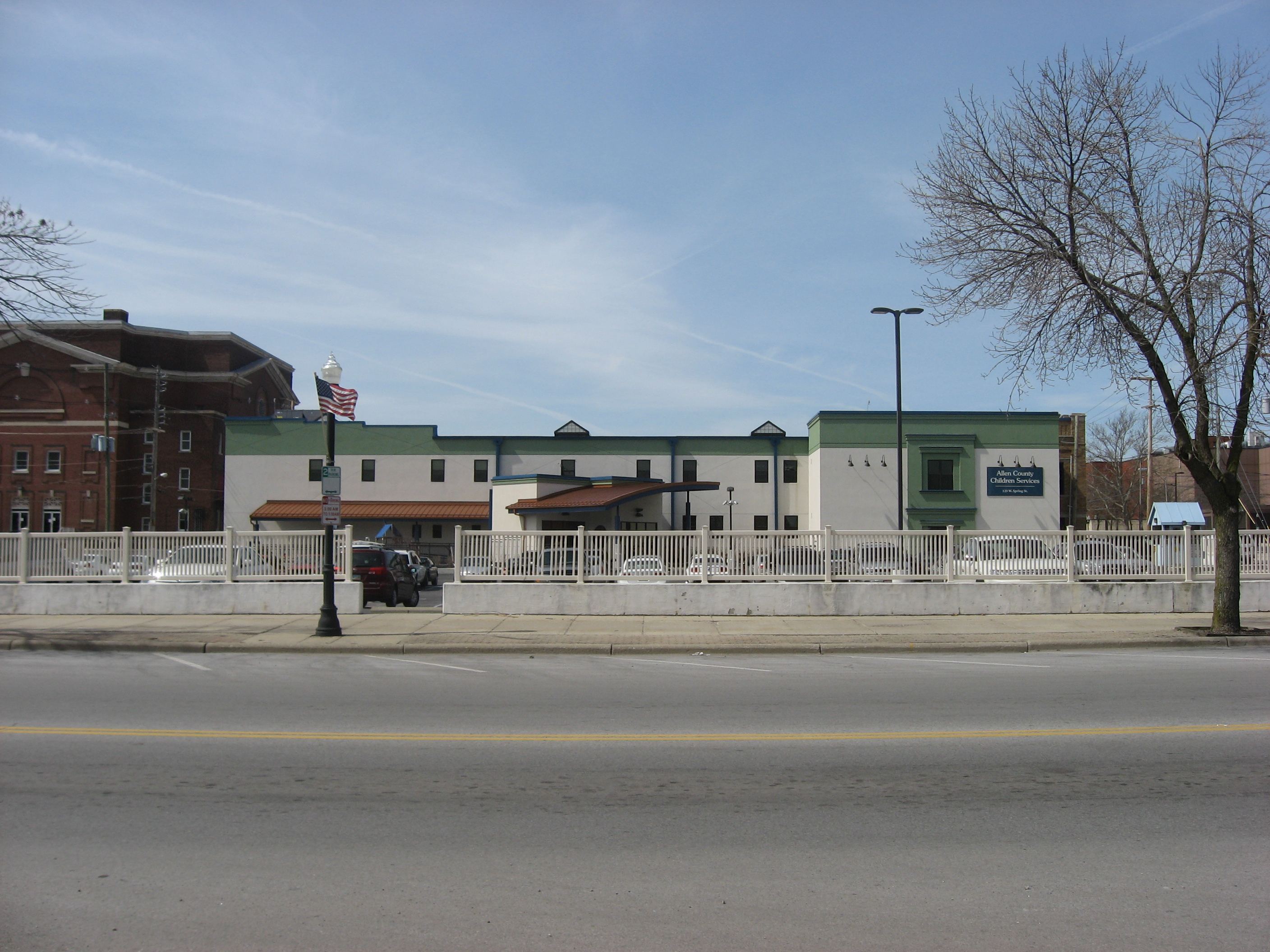 Site of the Linneman Building at 210-212 S. Main Street in Lima, Ohio, United States. Built in 1899, the building is listed on the National Register of Historic Places, even though it has been destroyed.